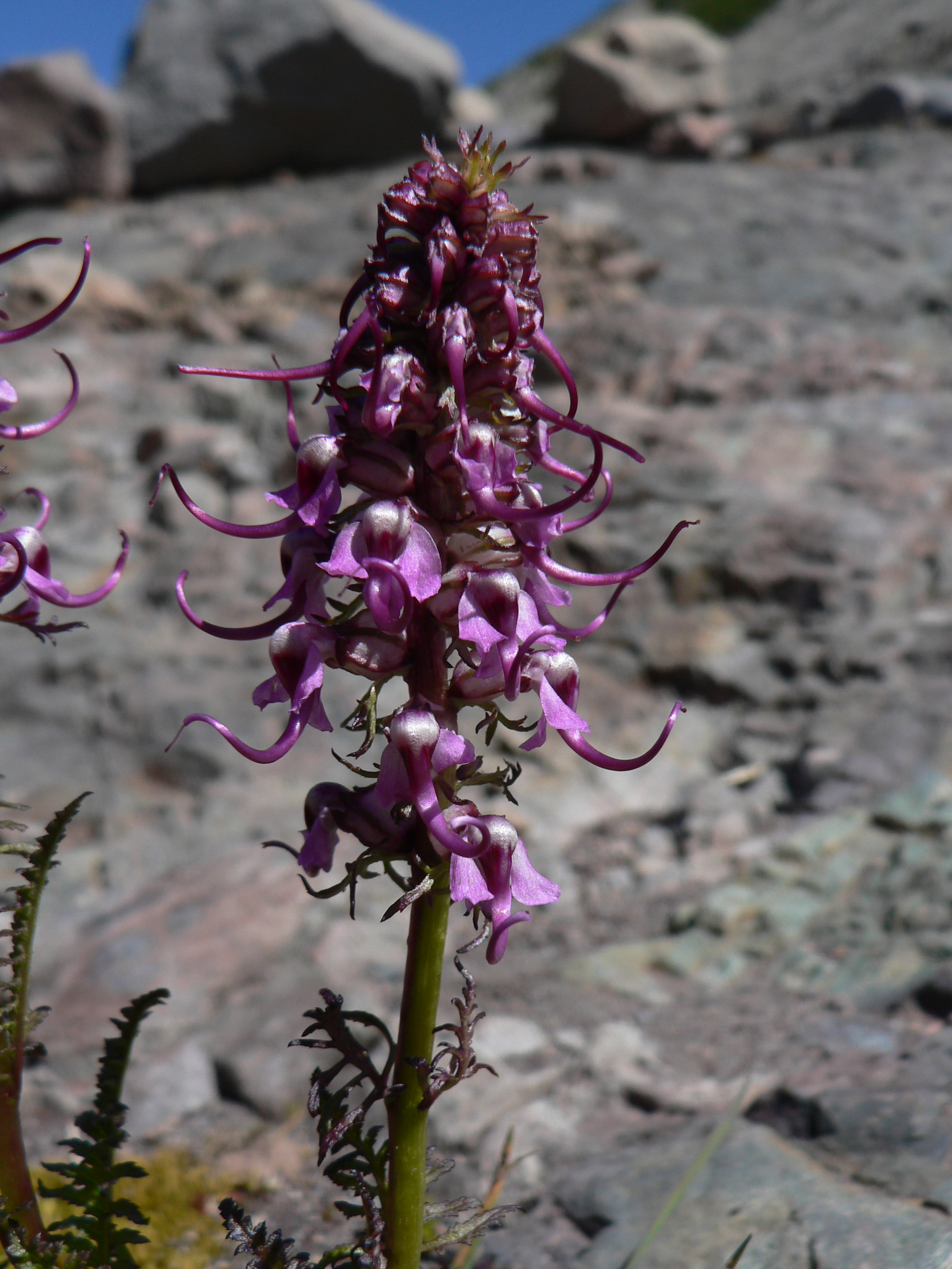 Elephanthead Lousewort